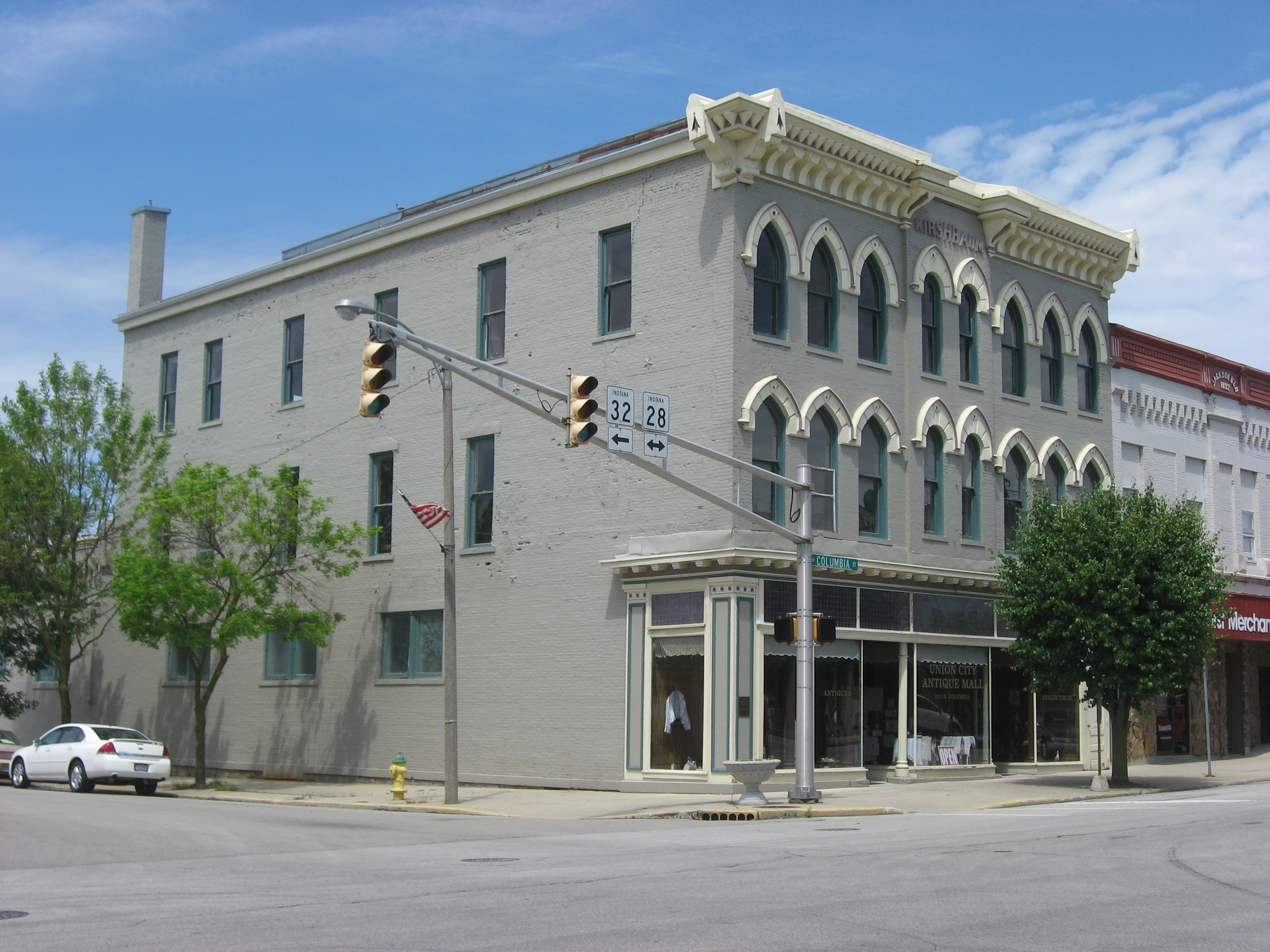 Front and southern side of the Raphael Kirshbaum Building, located on the northwestern corner of the intersection of Columbia (State Road 28) and Pearl Streets in Union City, Indiana, United States. Built in 1876, it is listed on the National Register of Historic Places, and it is part of the Register-listed Union City Commercial Historic District.